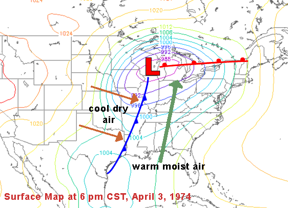 Surface map of the United States at 6:00 PM CST on April 3, 1974 at the peak of Super Outbreak tornado event. The center of the low at that time was situated over southern Wisconsin with a warm front strechting into southern Quebec and a cold front stretching south towards the Texas Gulf Coast.